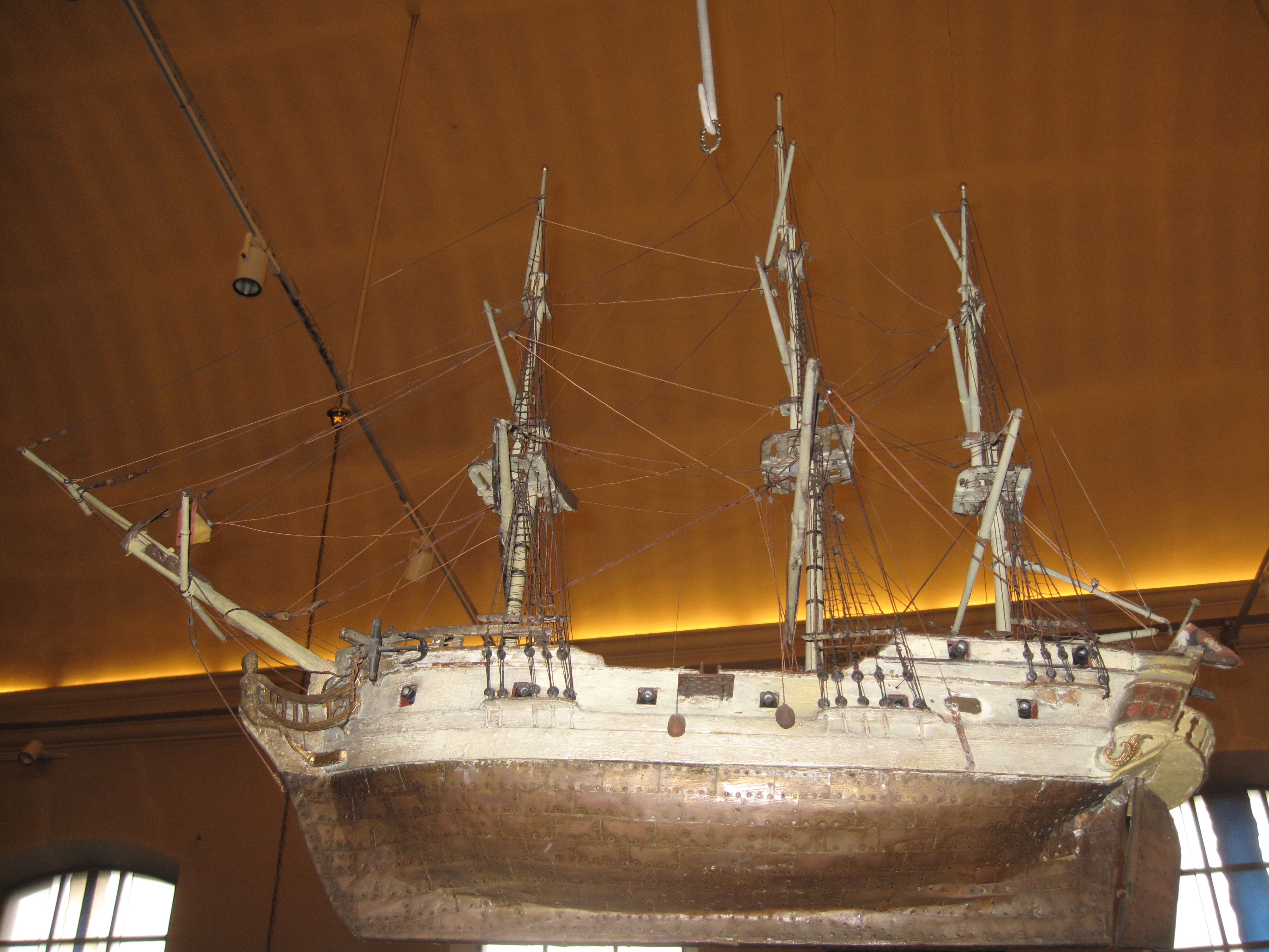 Ex-voto model Capuchin church, Ostend, Belgium